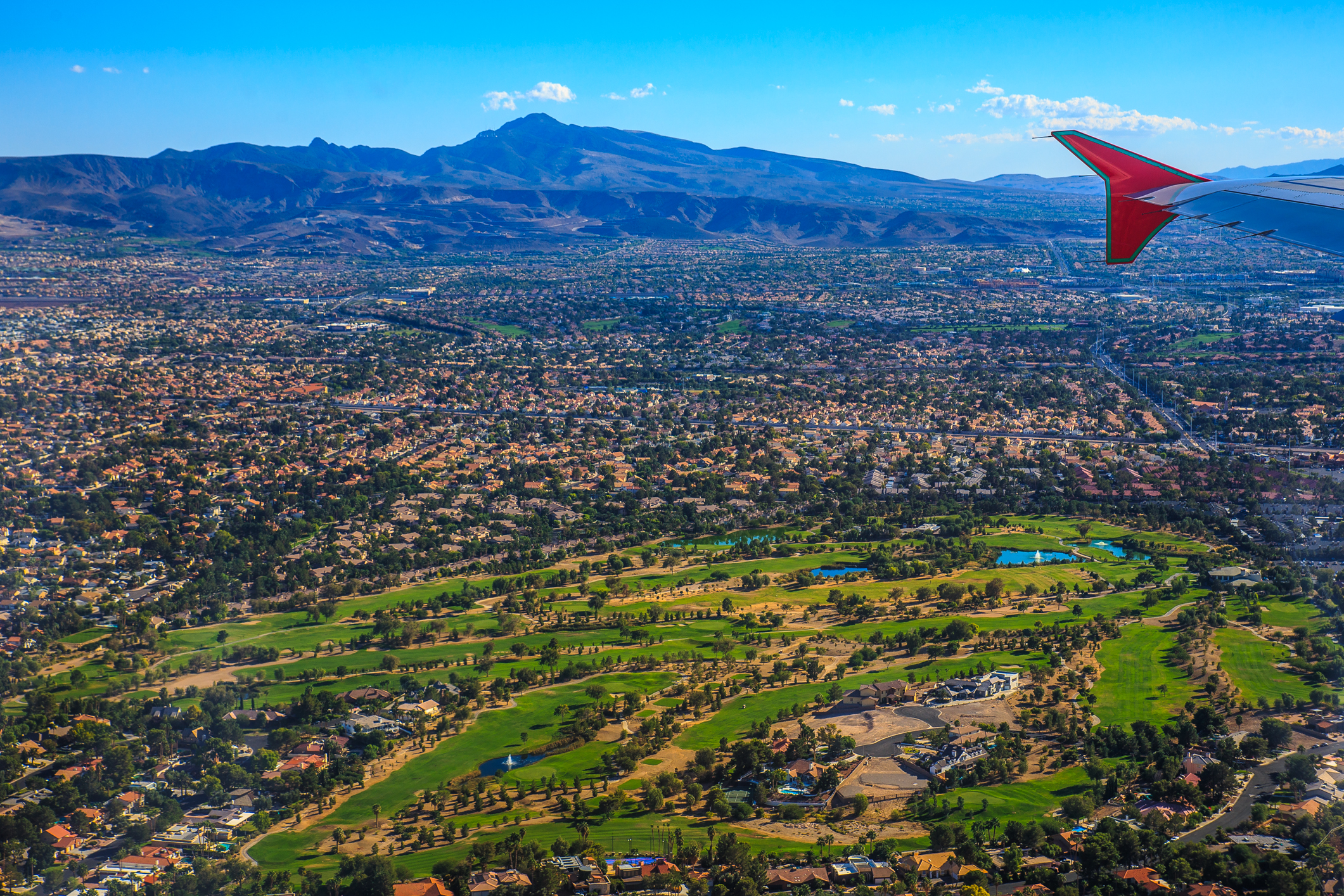 Flight from YVR to Las Vegas...aerial viws of the City